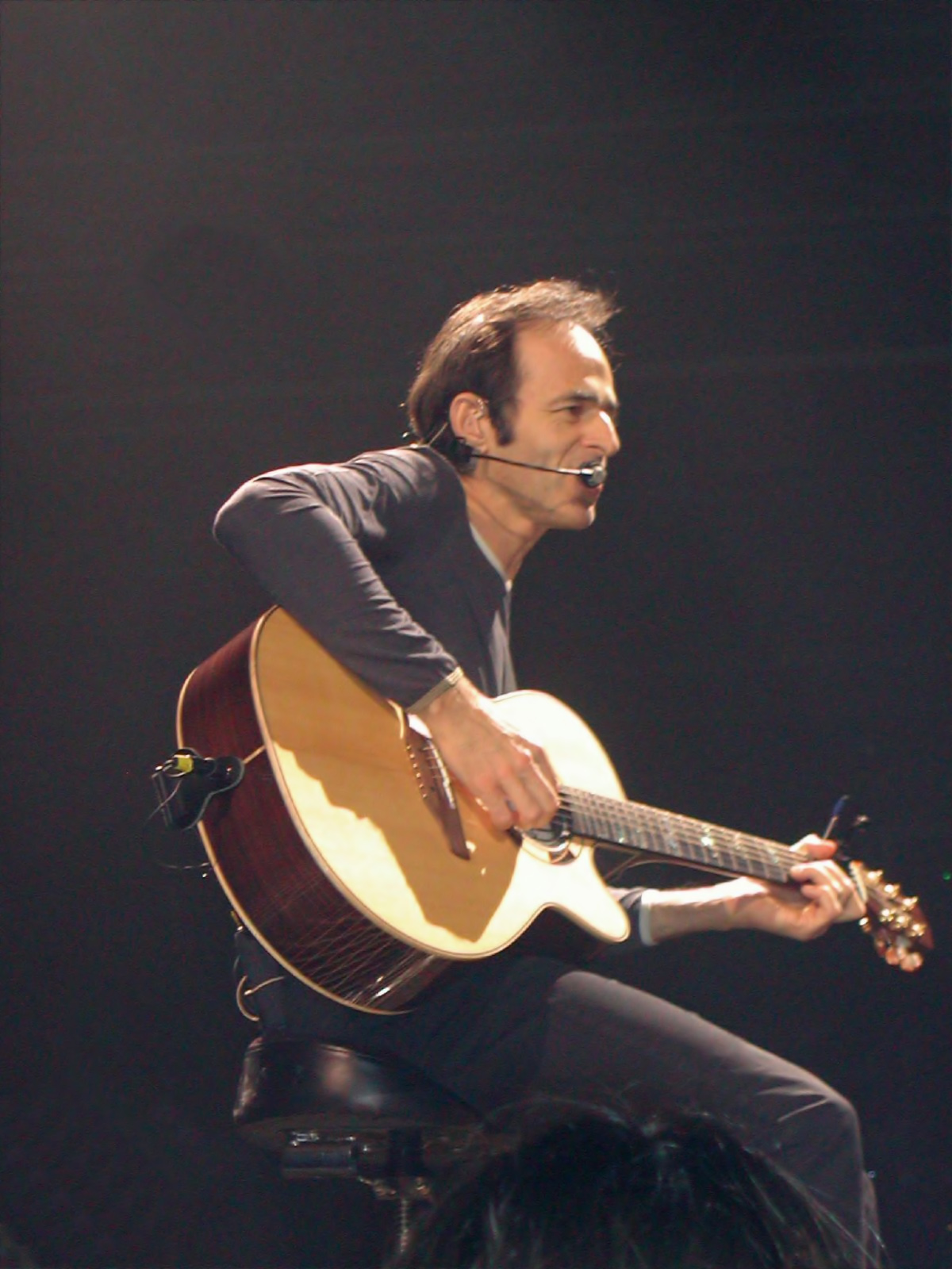 Jean-Jacques Goldman, during a concert in 2002 (seemingly on the 4th of may 2002, at the Zénith de Paris).